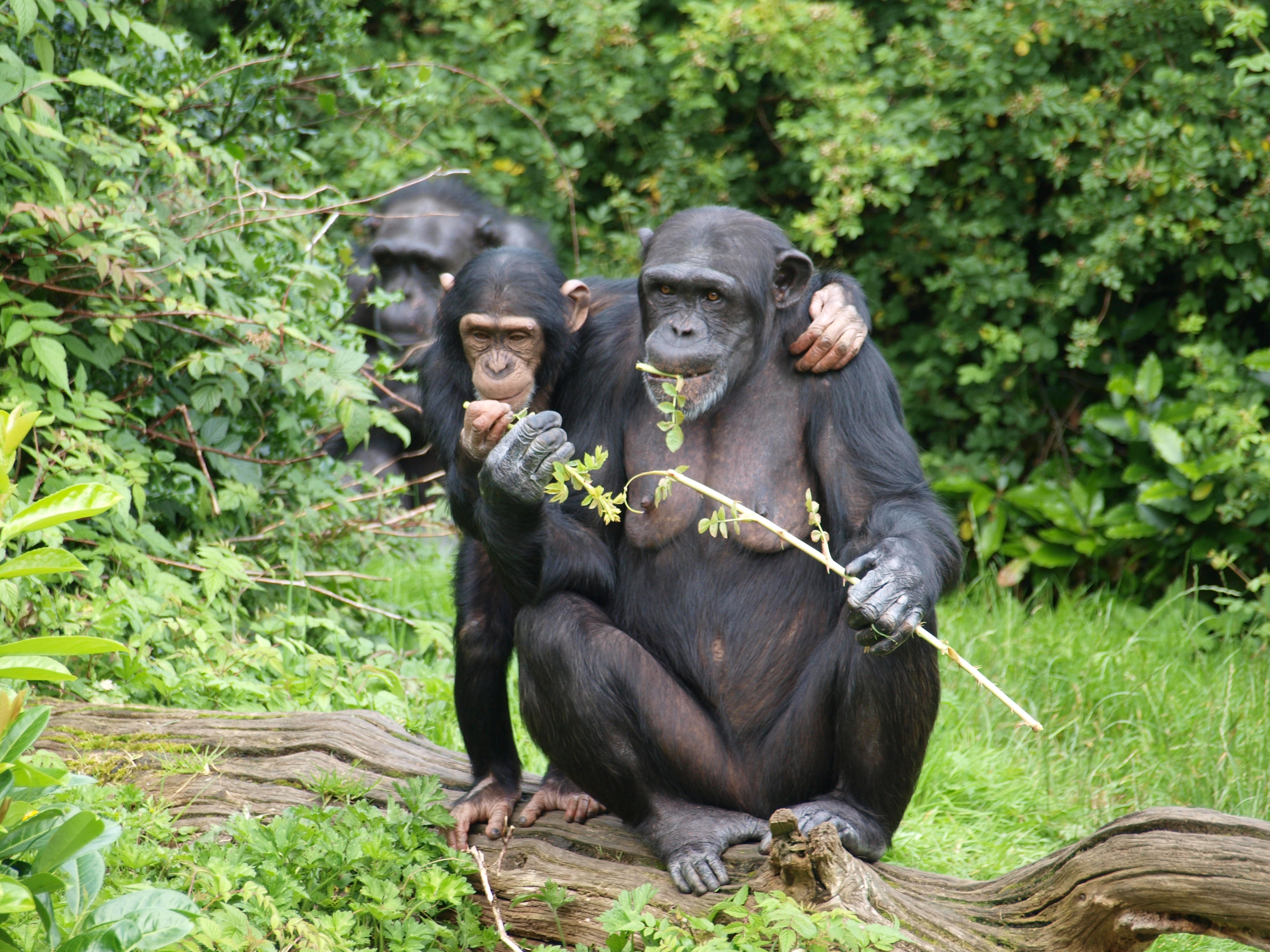 Chimpanzees at Chester Zoo